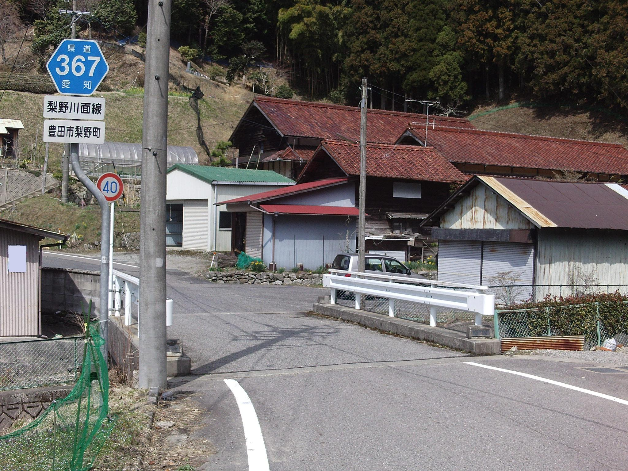 Aichi prefectural road No.367 in Nashinocho, Toyota, Aichi.